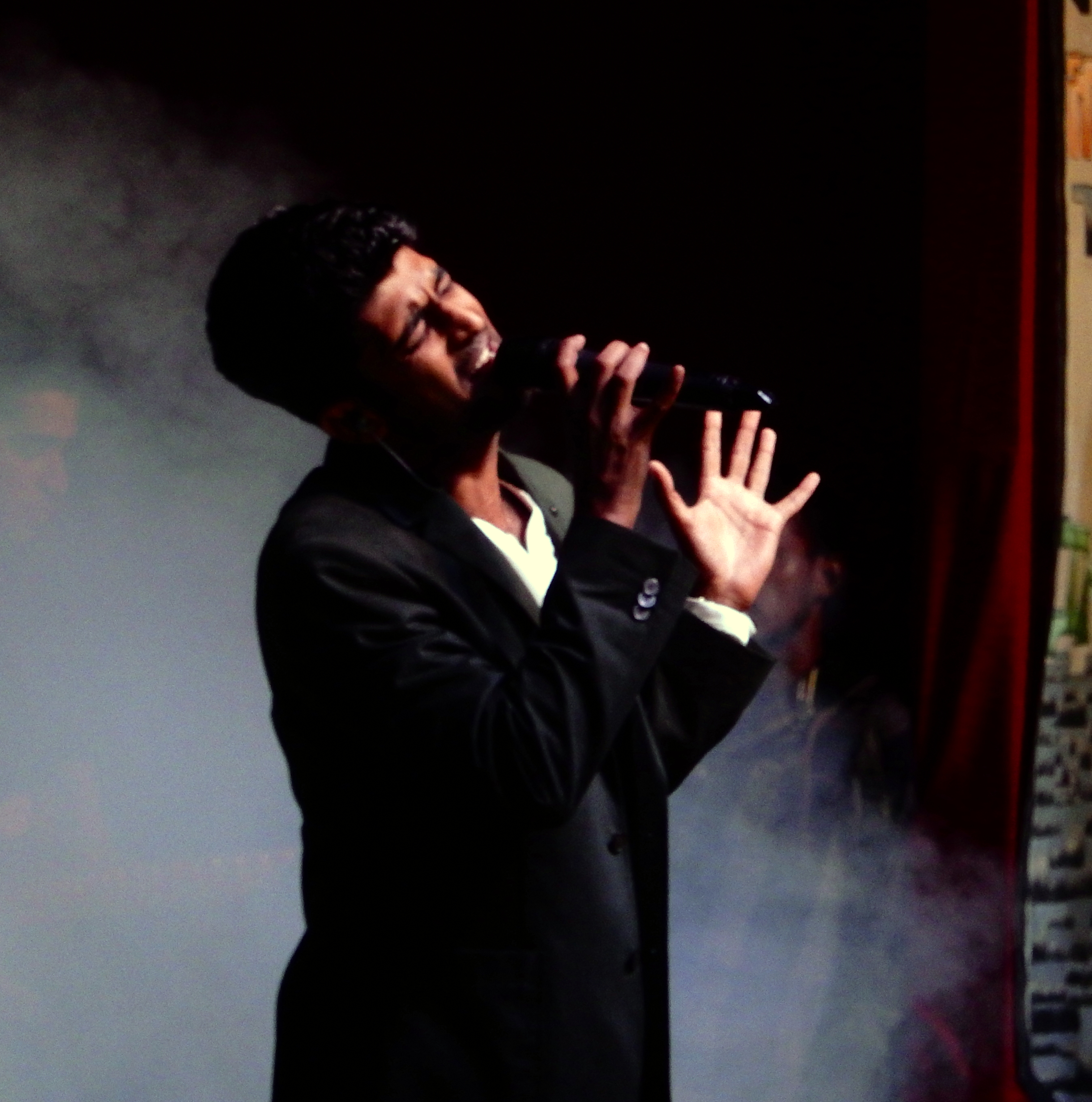 Mohammed Irfan performing in KL University in February 2015